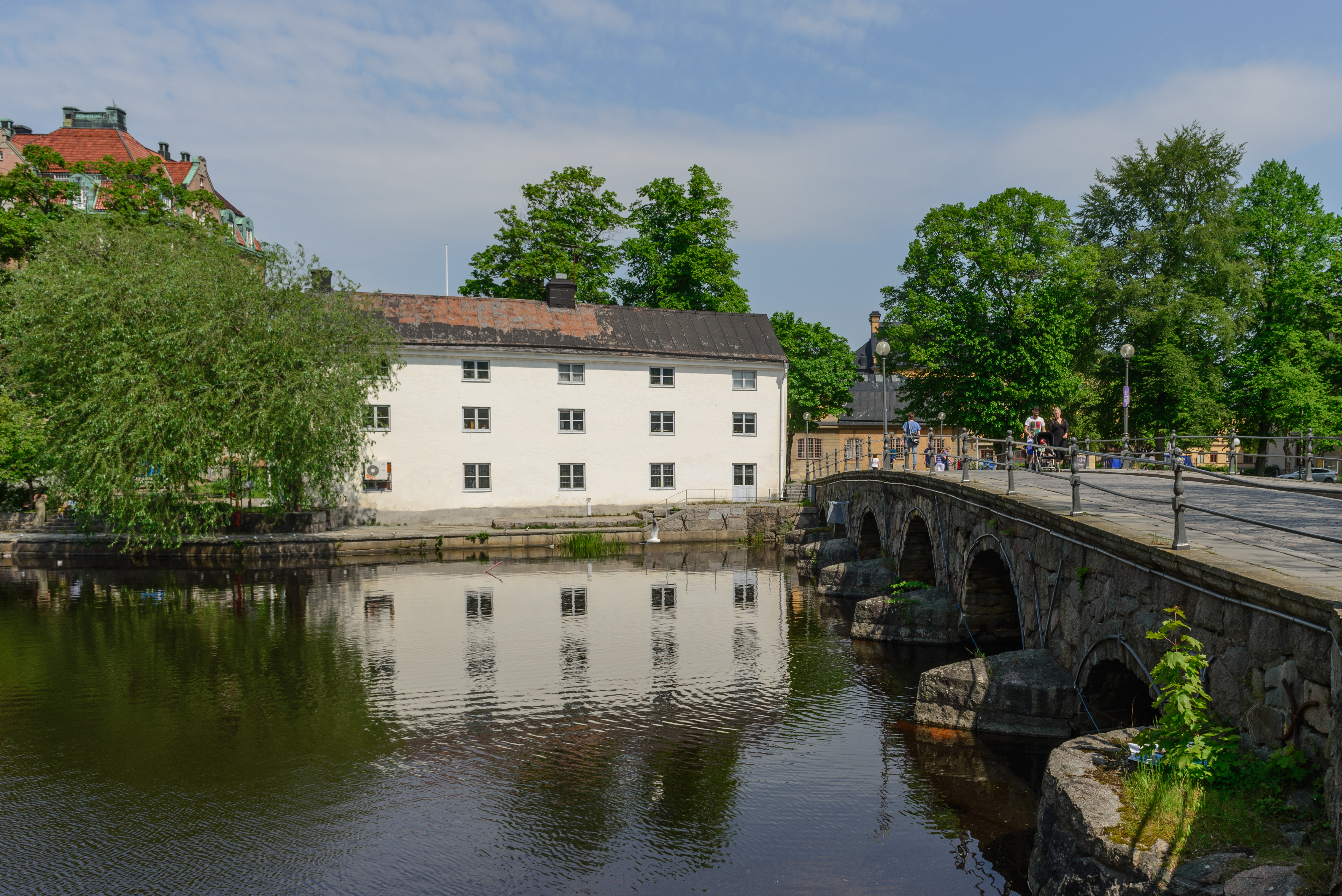 Historic workhouse in Örebro, Sweden.